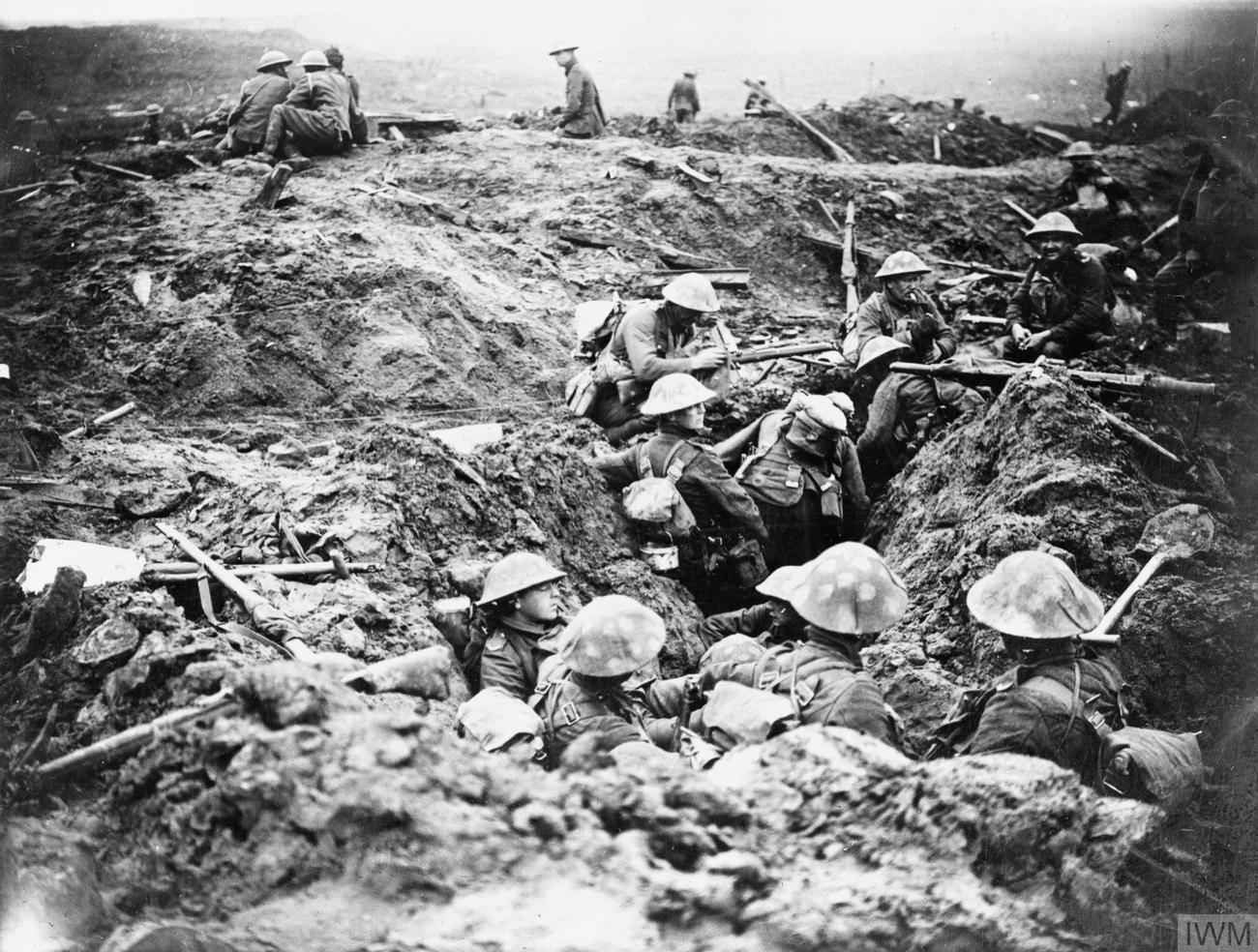 The Battle of Passchendaele, July-november 1917 Battle of the Menin Road Ridge. Men of the 13th Battalion, Durham Light Infantry, resting in trenches during their advance on Veldhoek, 20 September 1917.